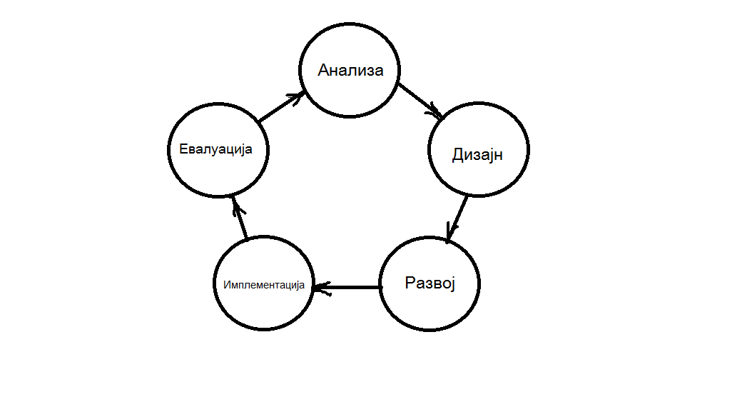 Model ADDIE